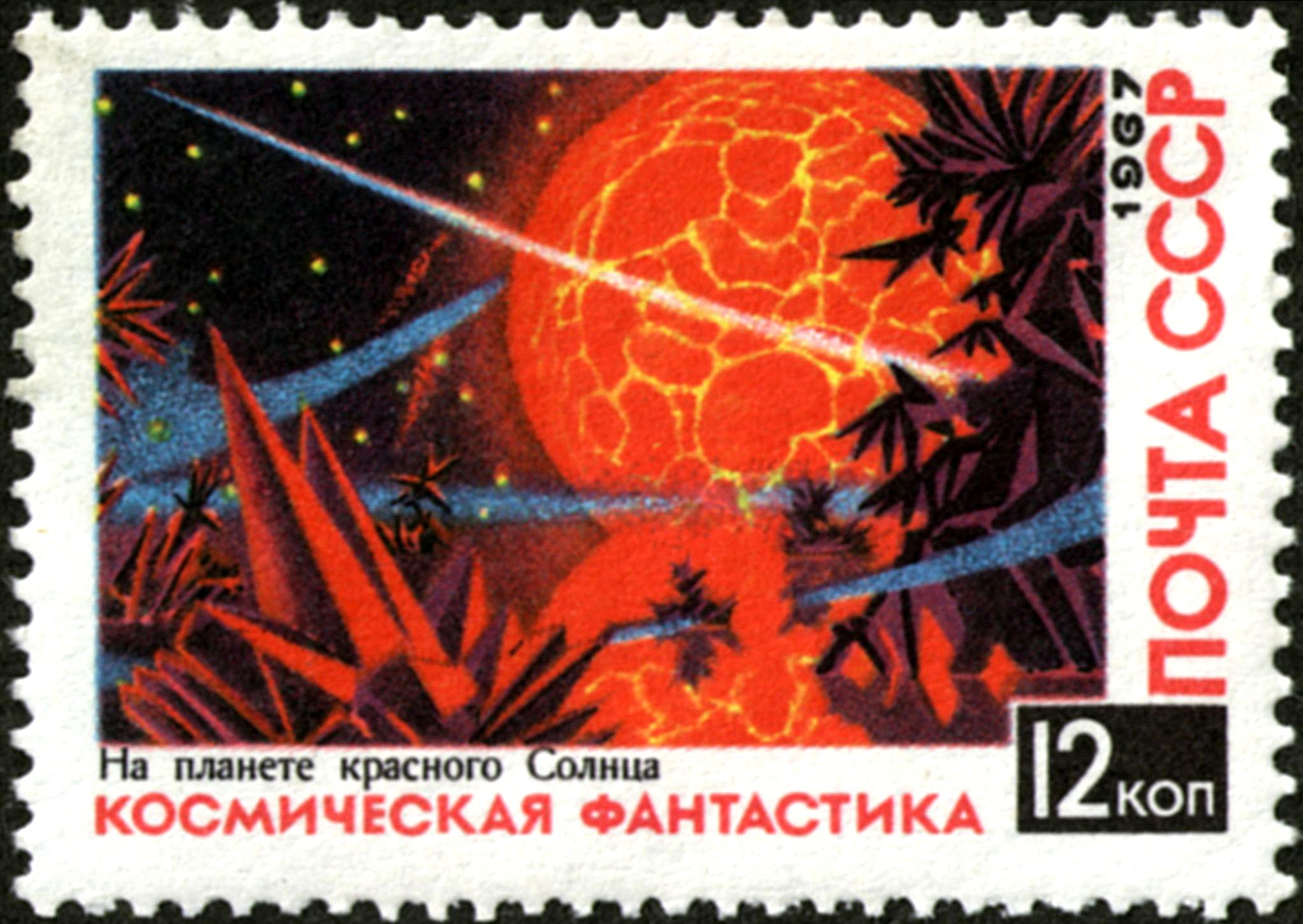 Science fiction.On Planet of Red Sun (Red Evening) by Andrey Sokolov (1931–2007). Paper, tempera. 1965[1].The stamp of the Soviet Union, 12 kopecks, 20 October 1967, CPA Catalogue No 3548, Michel No 3406, Scott No 3385, Yvert No 3285. Coated paper. Offset printing. Perforation: comb 12½×12. Size of the stamp: 40×32 mm. Print run: 3,000,000.